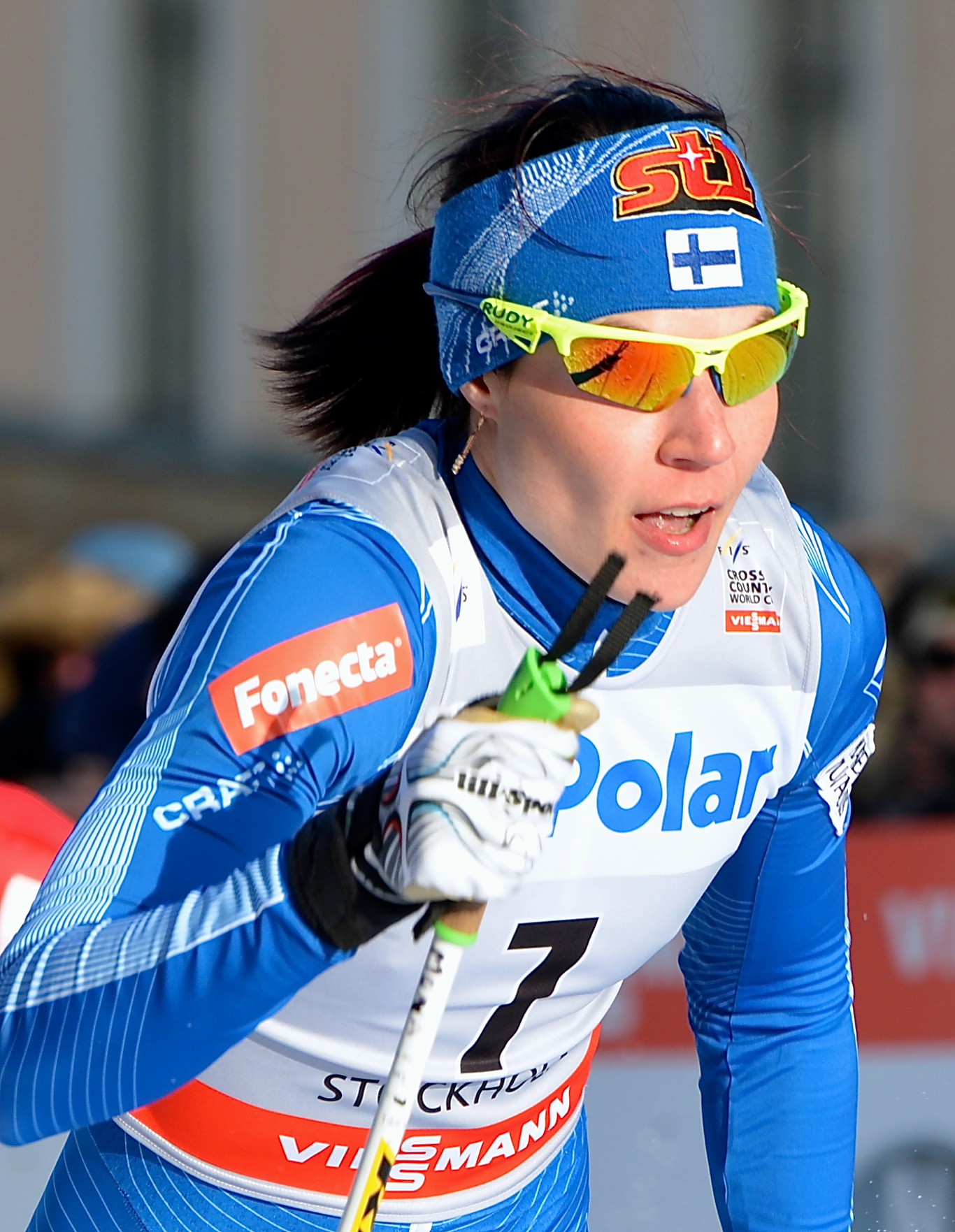 Mona-Liisa Malvalehto at the Royal Palace Sprint, part of the FIS World Cup 2012/2013, in Stockholm on March 20, 2013.